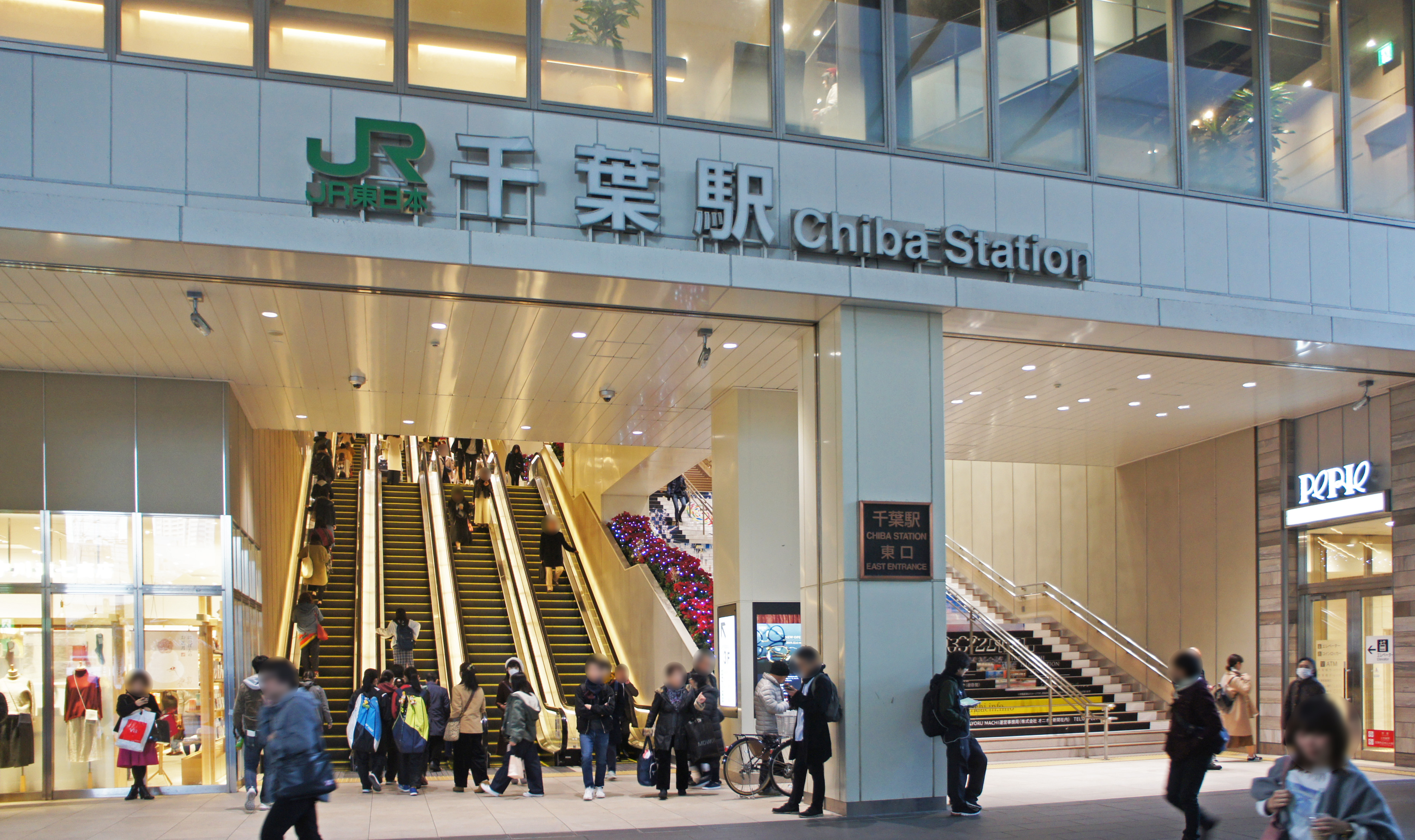 East Exit of JR Chiba Station